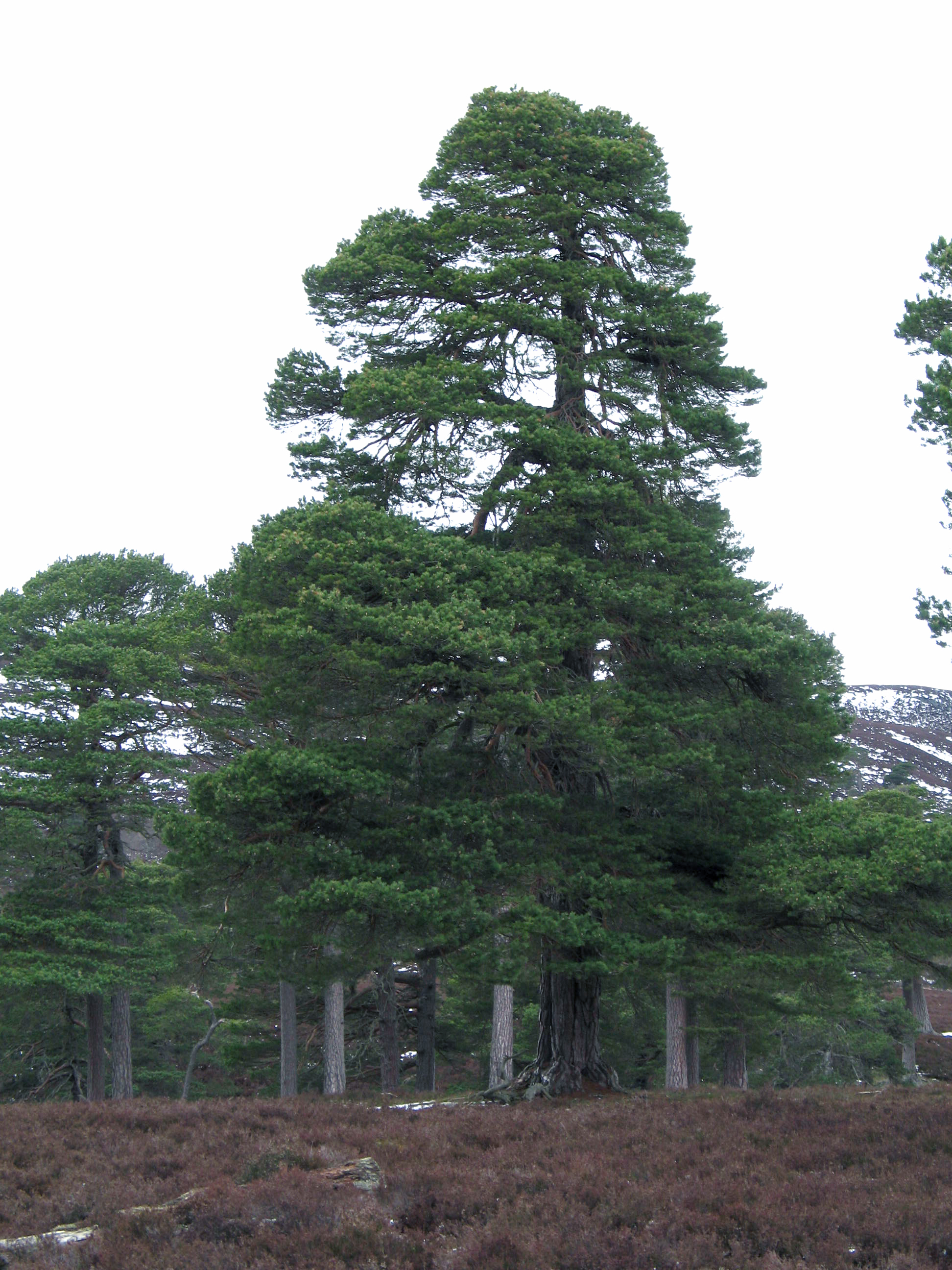 Native Scots Pine Pinus sylvestris forest. Scotland: Deeside, near Mar Lodge; 56°59'51"N 3°32'33"W, 400m altitude.